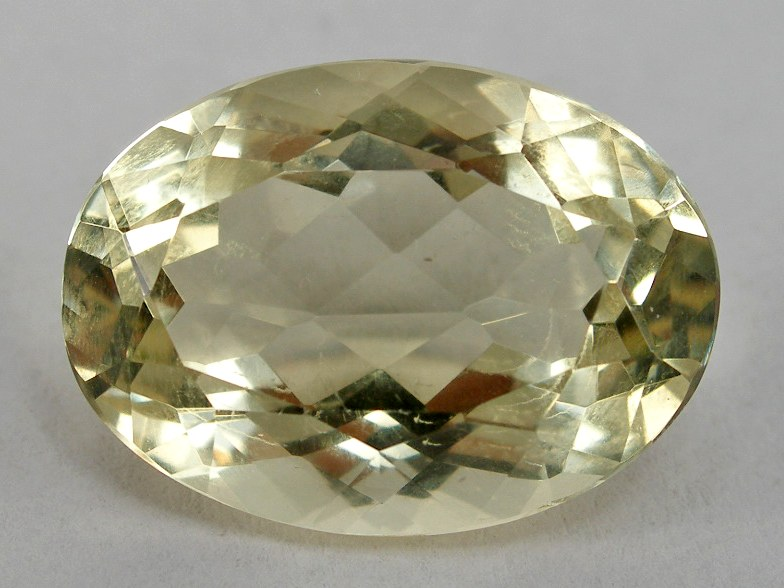 Orthoclase Locality: Itrongay (Itrongahy), Mahasoa East Commune, Betroka District, Anosy (Fort Dauphin) Region, Tuléar (Toliara) Province, Madagascar (Locality at ) Size: miniature, 4.5 x 4 x 2 cm Orthoclase (rough and cut set) GEM: 2.0 x 1.4 x 1.0 cm; weight 15.03 carats The finest gem crystals of orthoclase are produced in this region of Madagascar, although most of the crystals come out broken and tumbled. This is a VERY RARE AND LARGE , 100% gem, crystal of sharp feldpsar of this rare style! Although there is some minor contactting on lower portions of the sides, i can tolerate it as this is still a very well crystallized, golden, transparent, crystal with all faces present. Also, teh termination is SHARP, not rounded as usual! Its gem weight is 55 grams. Accompanying this crystal is a 15.03 carat, golden, faceted gem, of the same orthoclase. This is a set where both are equally fine, although the specimen is the more rare.